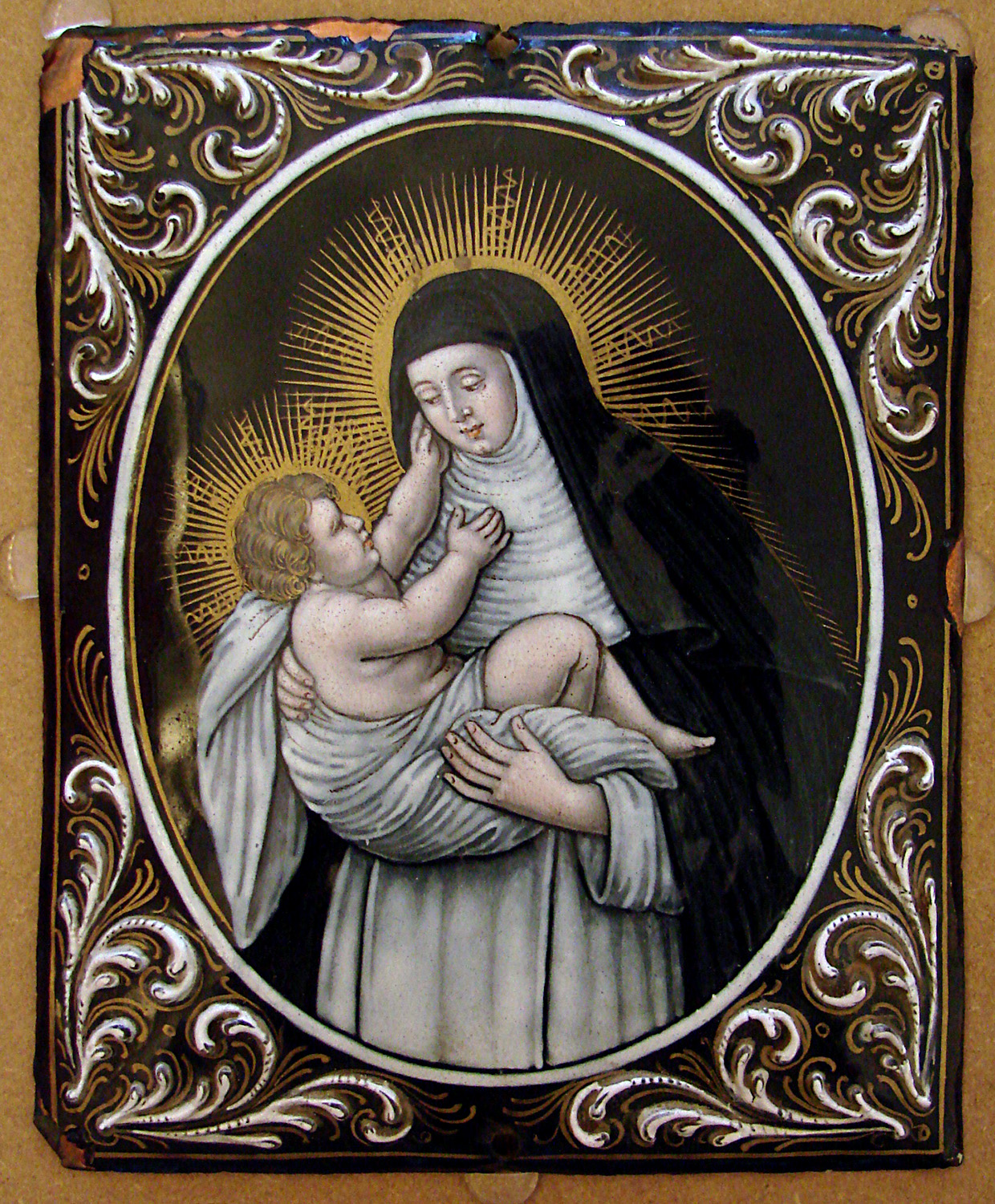 Enamel on copper by Noël II Laudin (1657-1727),Limoges: Saint Rose of Lima.Musée de Châlons en Champagne, Reims, France.